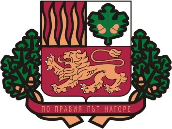 Coat of arms of Pravets, Bulgaria